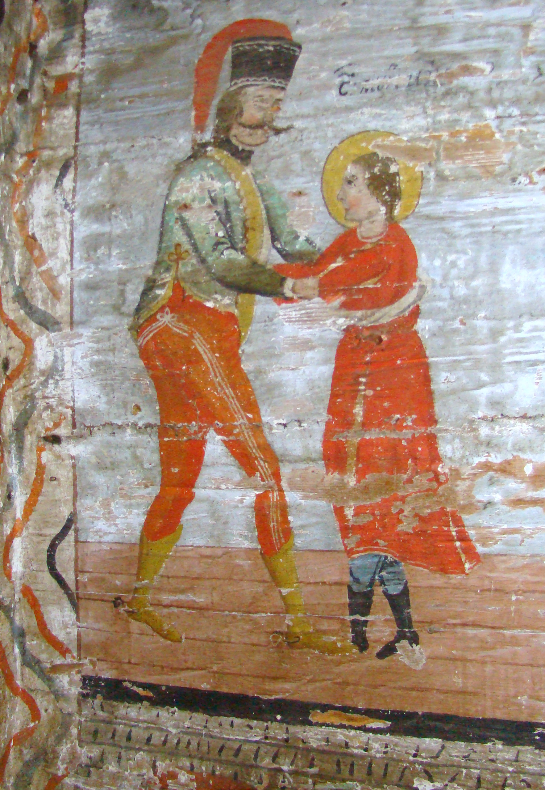 man wearing nobiliar costume on one of the paintings in the wooden church of Rozavlea (Maramureș, Romania), executed between 1823 and 1825